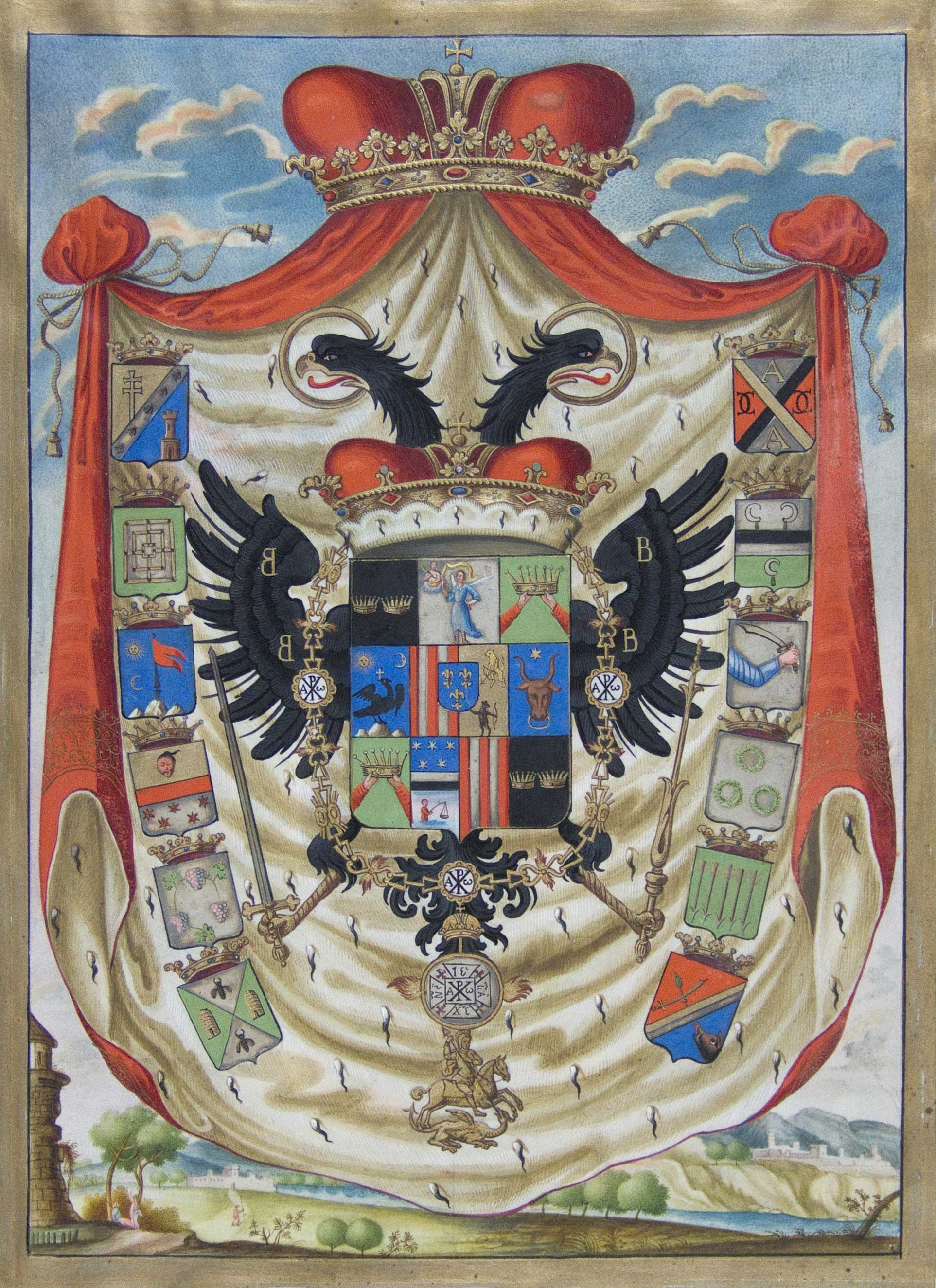 Bull issued by Ioan Radu (Johann Rudolf) Cantacuzino Mărgineanu, Grand Master of the Habsburg Court, recognizing Jan Karl von Abschatz as baron. Bearing the Cantacuzino arms.